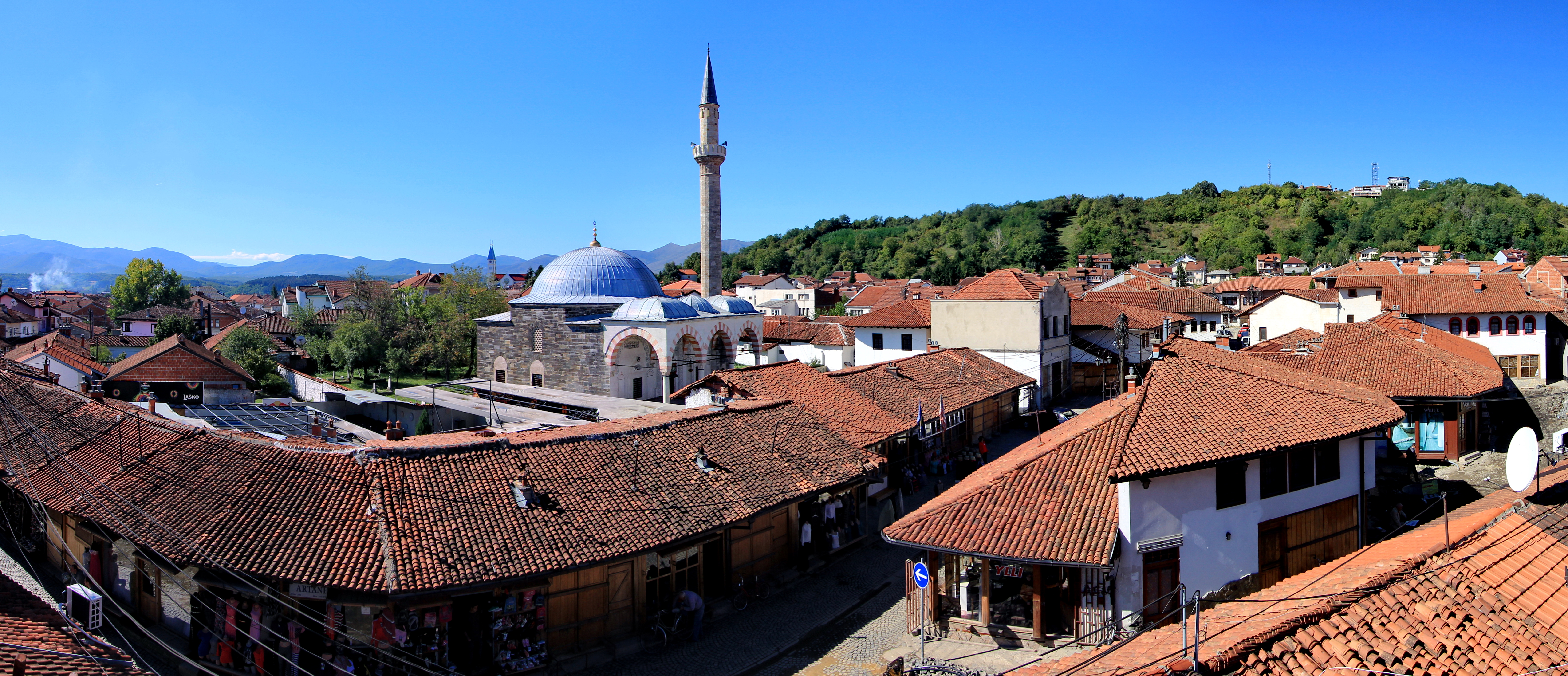 Panaorama of Big Bazaar in Gjakova showing the Hadum Mosque